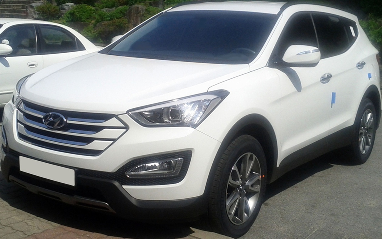 Hyundai Santa Fe